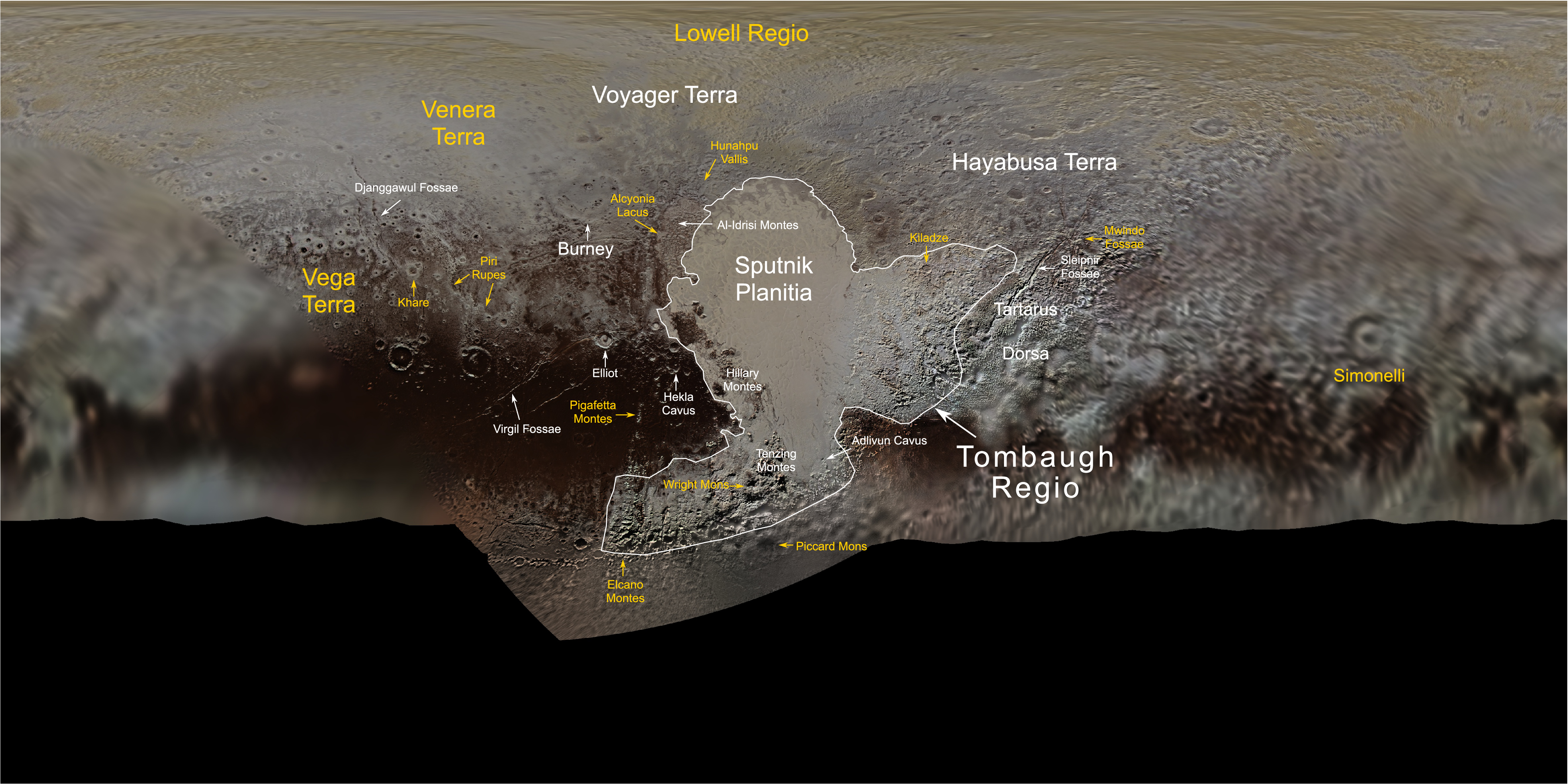 This map, compiled from images and data gathered by NASA’s New Horizons spacecraft during its flight through the Pluto system in 2015, contains the full roster of Pluto feature names approved by the International Astronomical Union. Names from the newest round of nominations, approved in 2019, are in yellow.